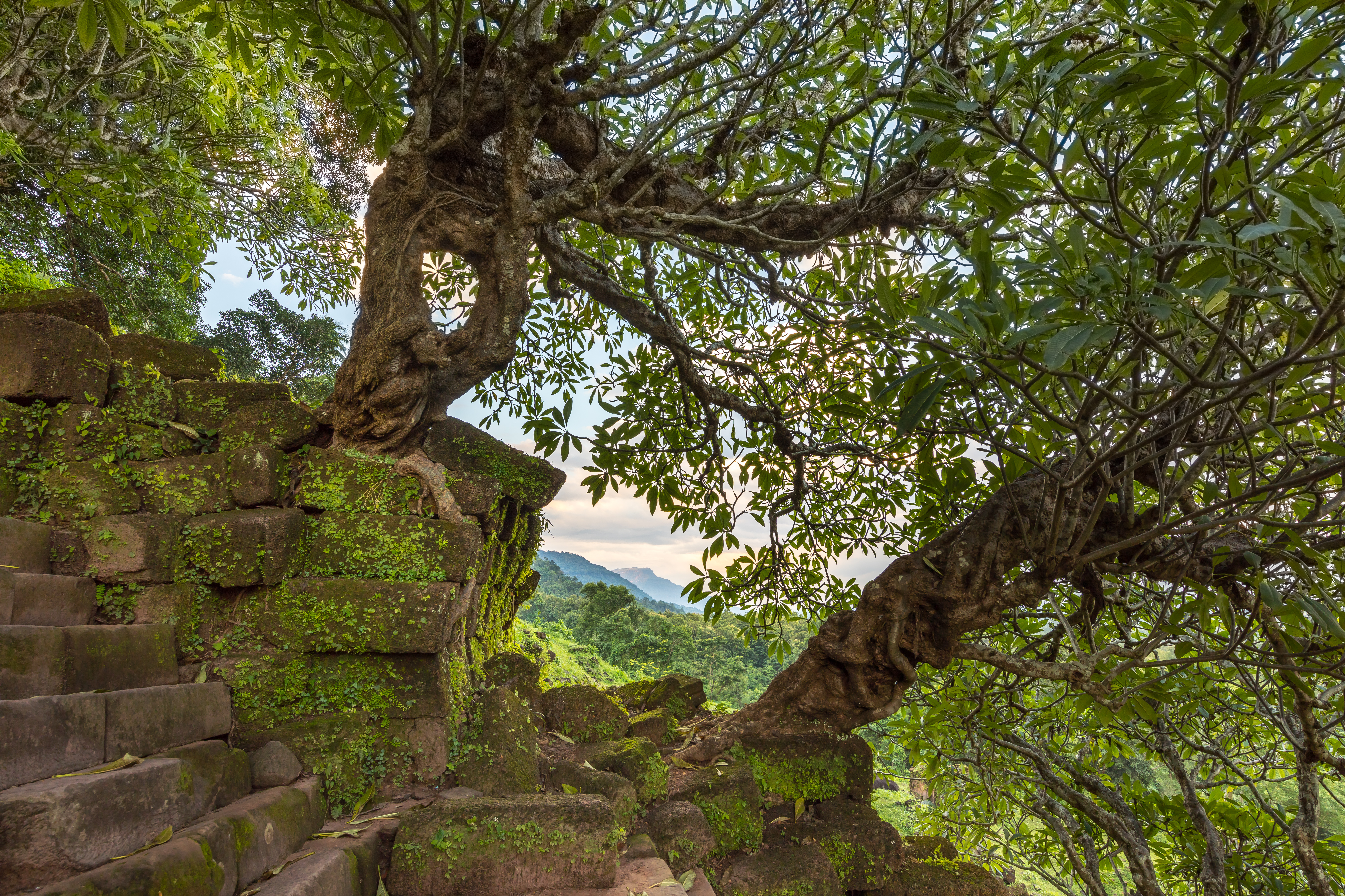 Twisted, hollow and leaning Plumeria tree trunks (Frangipani) overgrowing the ruins of the crooked, steep stone stairs, covered of moss, of Wat Phou Khmer temple, a UNESCO world heritage site, Champasak, Laos. Evening. The trees are probably one to two hundred years old.